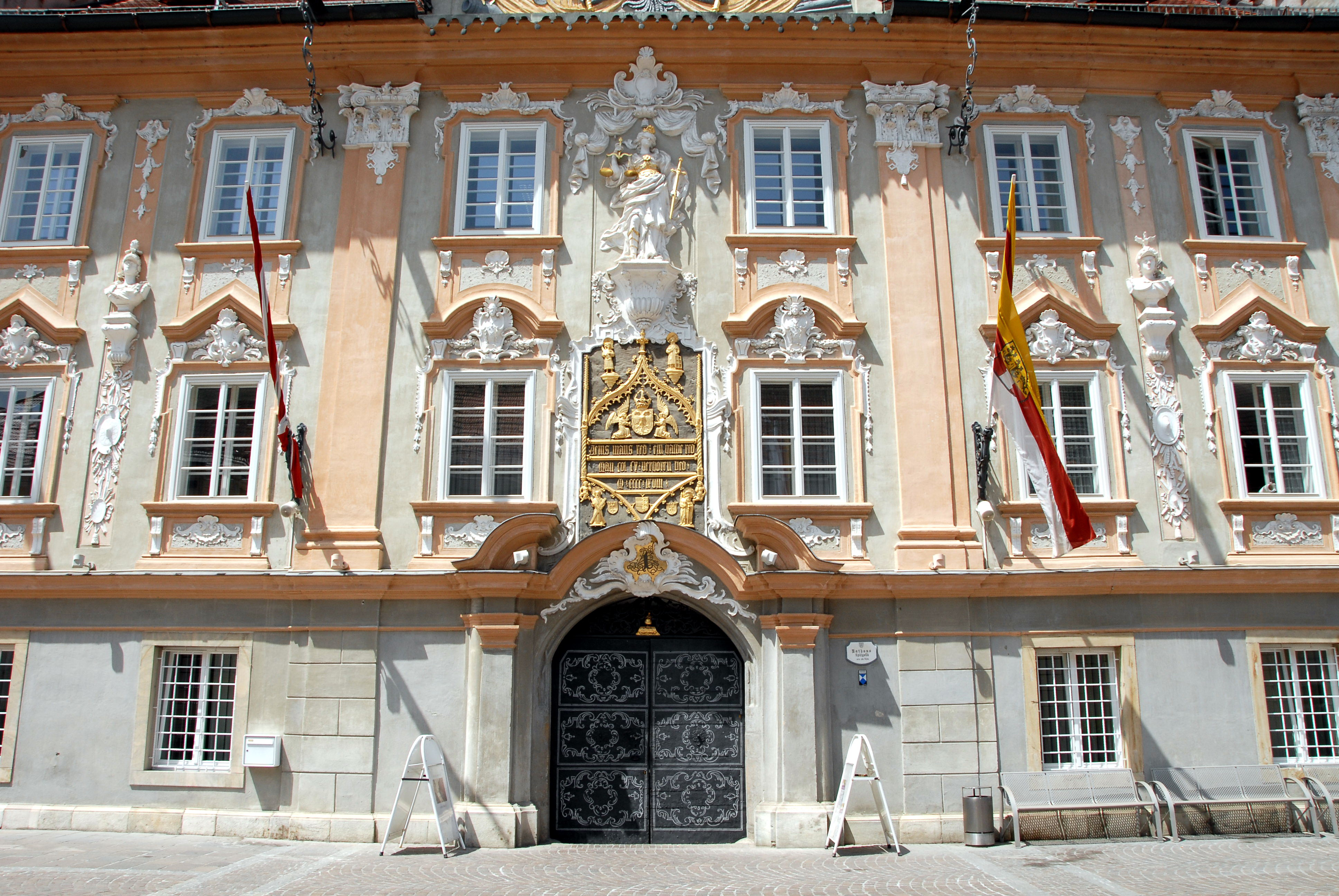 Townhall in gothic style on Hauptplatz #1, city St. Veit an der Glan, district Sankt Veit, Carinthia, Austria, EU